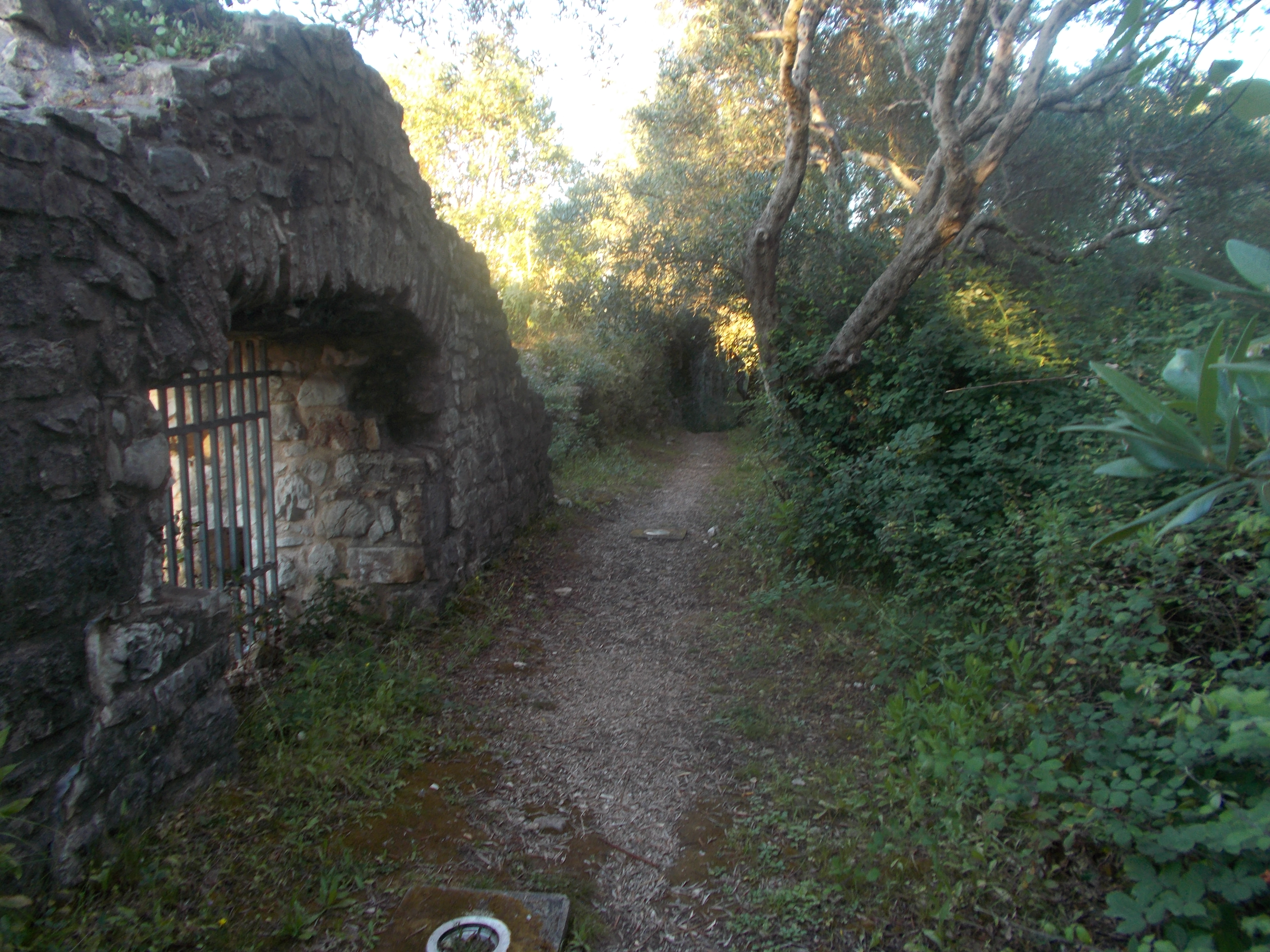 Please see filename